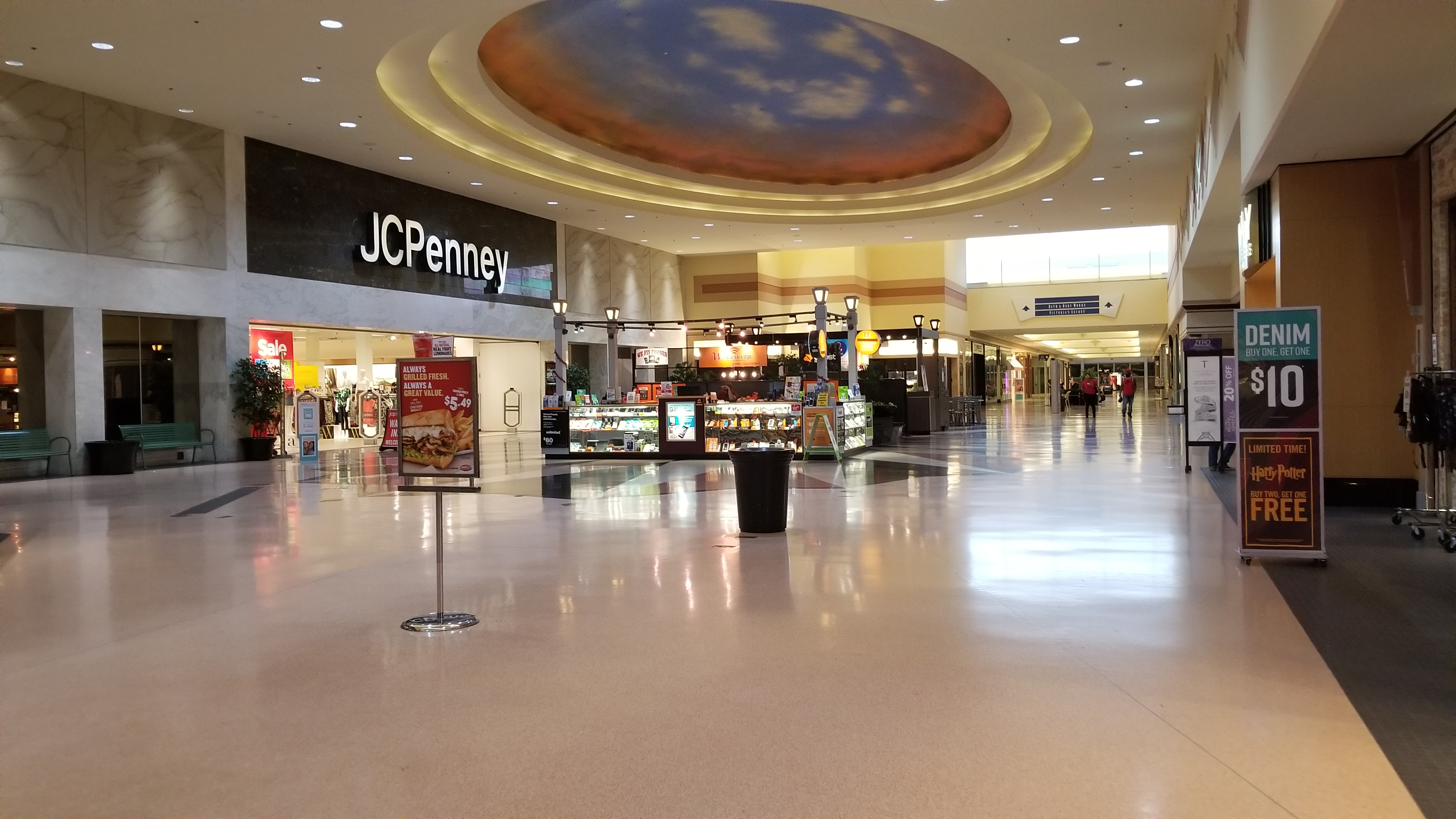 J. C. Penney court of Chapel Hill Mall in Akron, Ohio